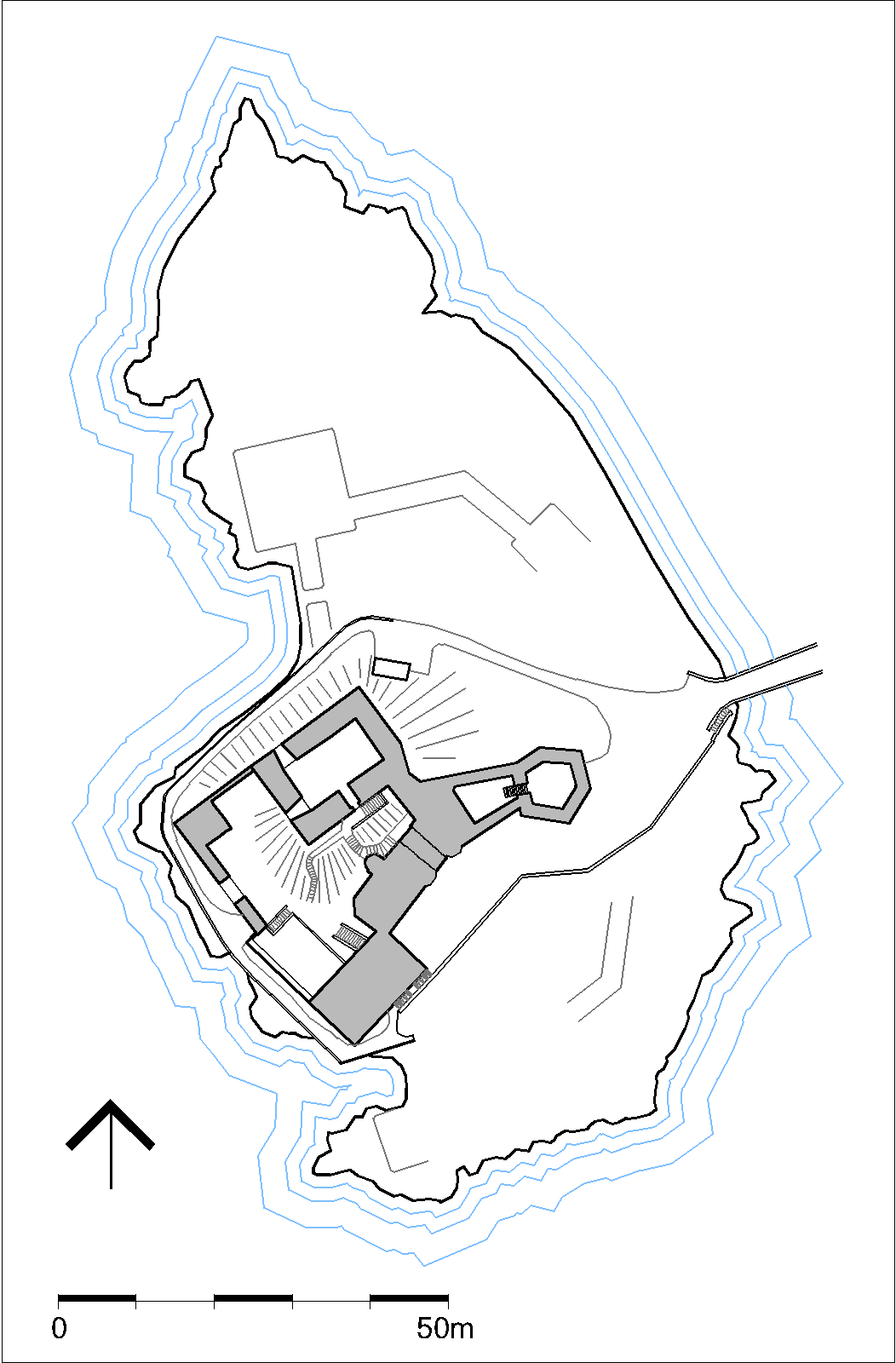 Eilean Donan Castle, Scotland. Plan of the castle as it is today, following 20th century reconstruction